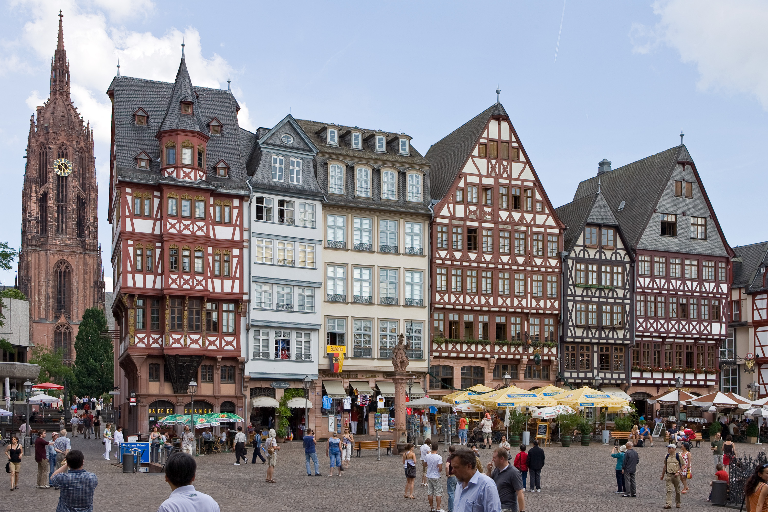 Frankfurt on the Main: Ostzeile (Eastern Row) at the Römerberg, historically correct actually Samstagsberg as seen from the southwest